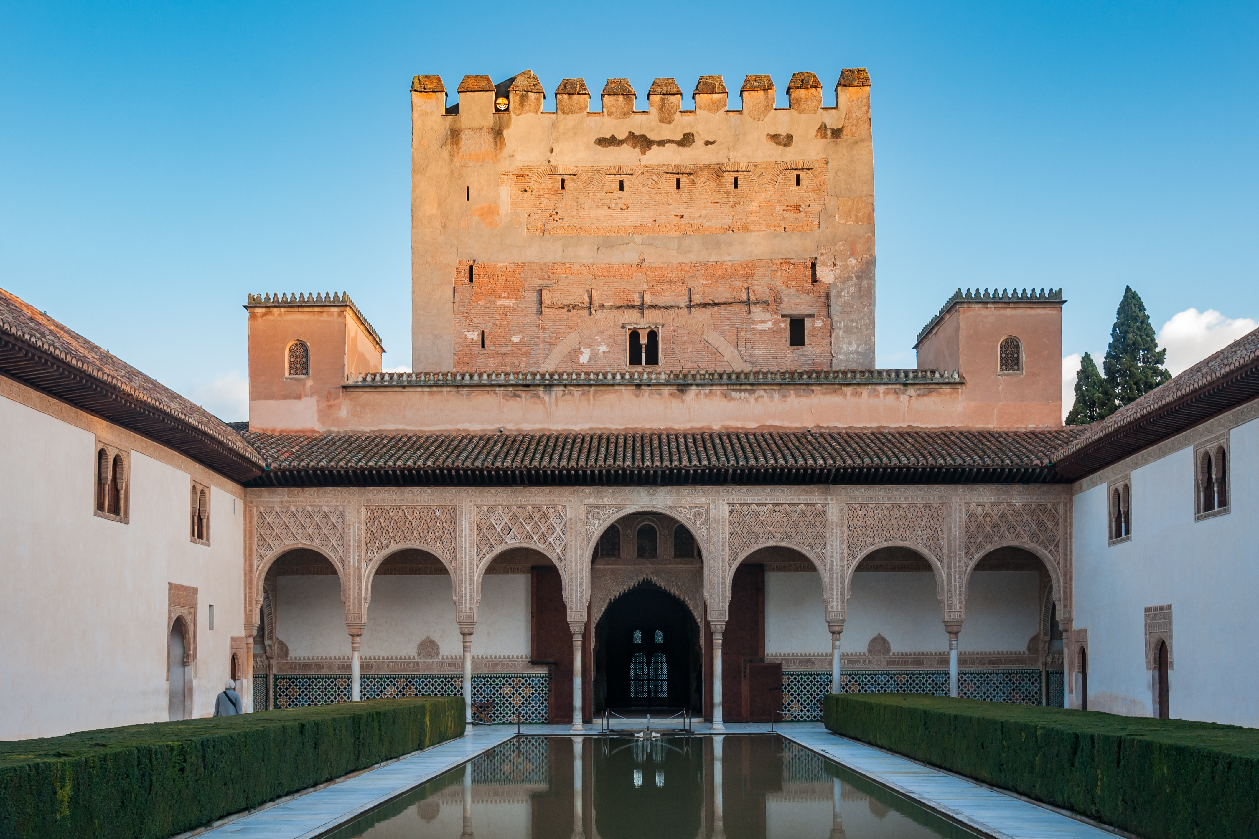 Granada, Spain: Palacio de Comares in the Alhambra)